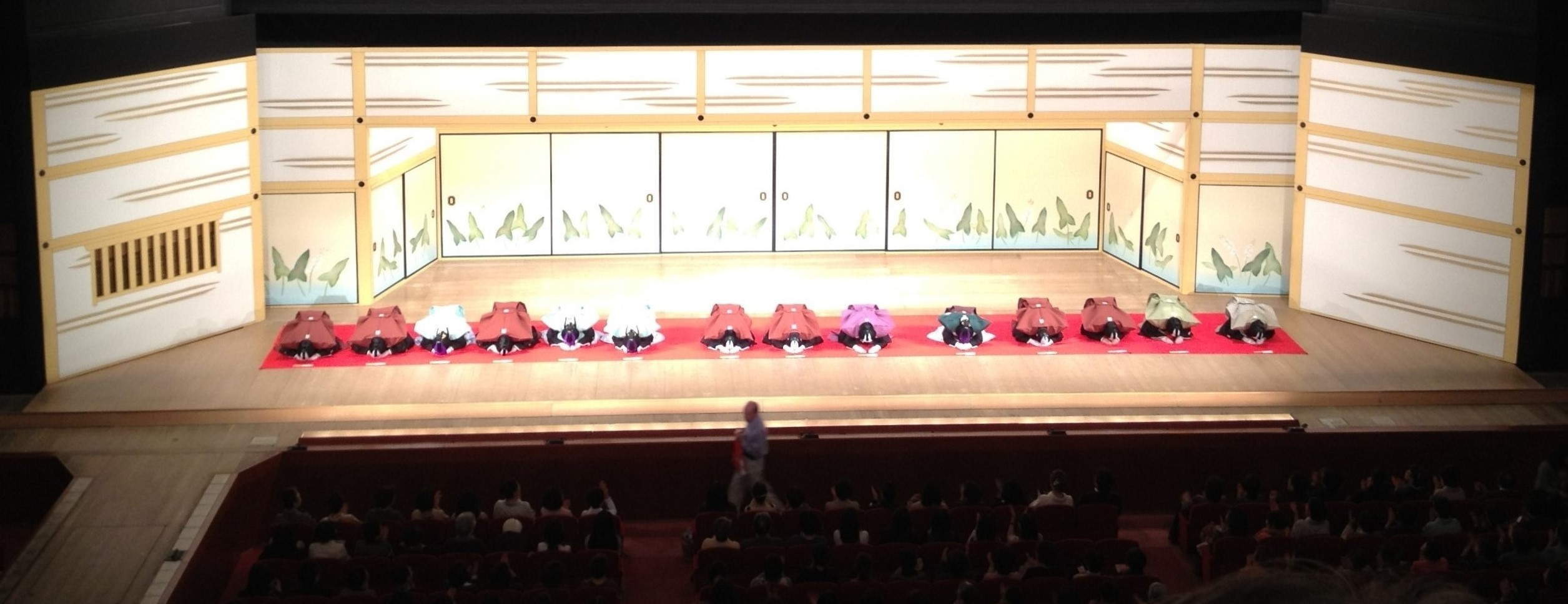 Shūmei name-taking ceremony (襲名) Ichikawa En'ô II, Ichikawa Ennosuke IV and Ichikawa Chûsha IX at the Misono-za theatre in Nagoya. This was the last kabuki performance week before renovation work.